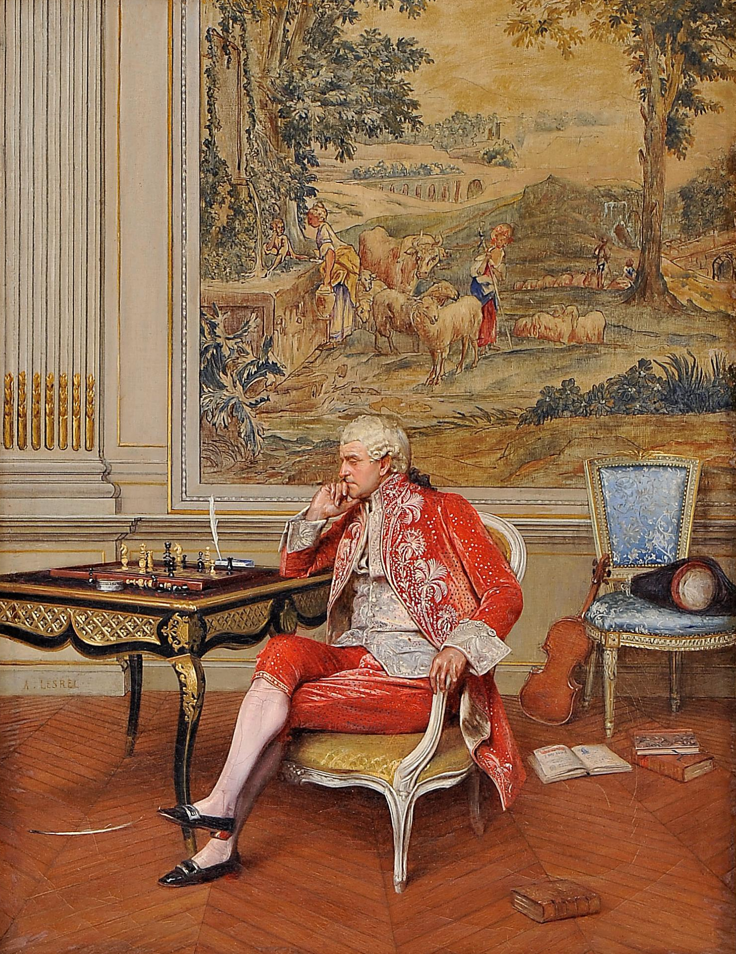 An Interesting Problem, by Adolphe-Alexandre Lesrel (1839-1929)